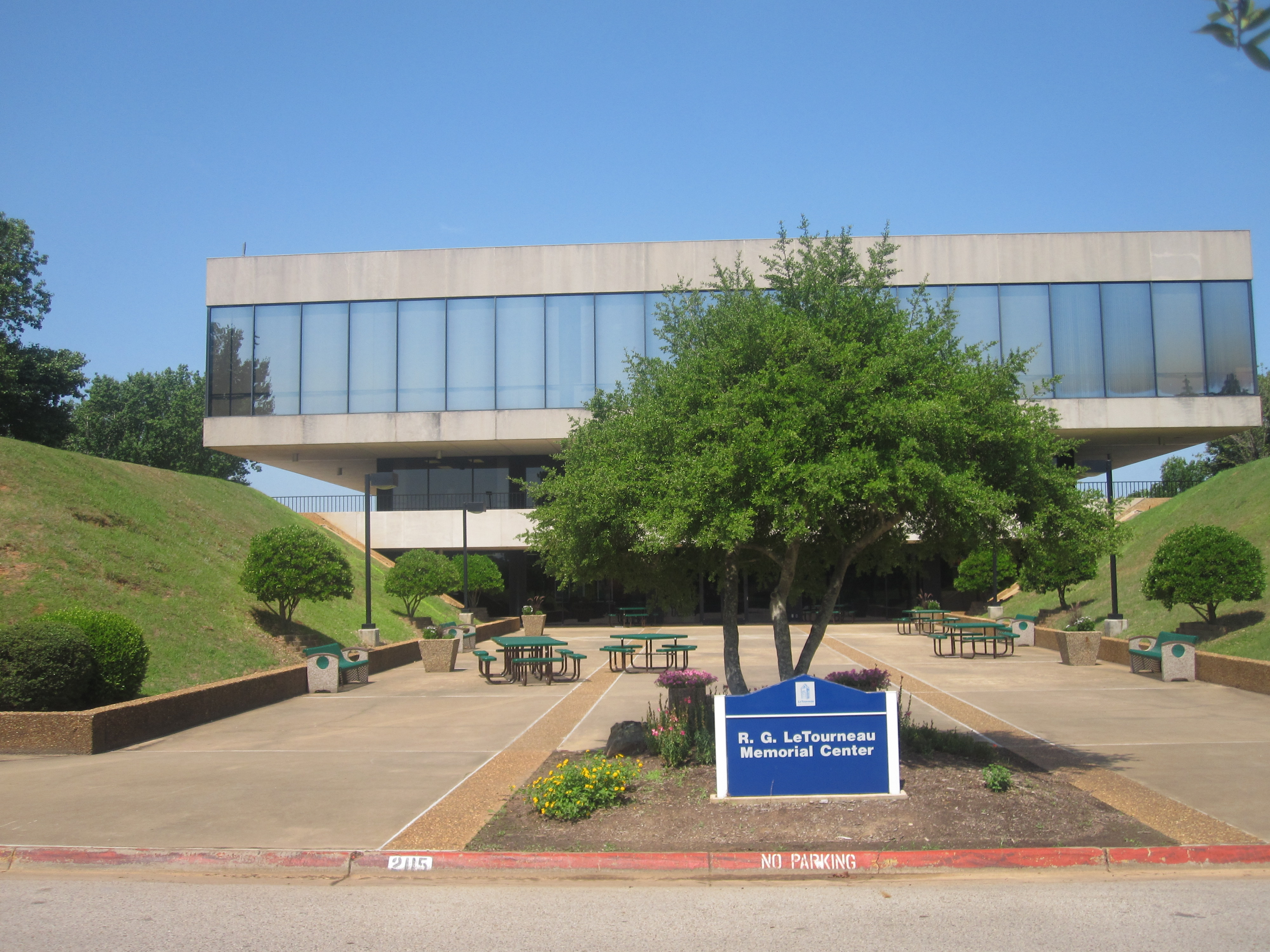 I took photo at LeTourneau University in Longview, TX, with Canon camera.